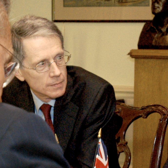 British Foreign Secretary Jack Straw (right) meets with Secretary of Defence Donald H. Rumsfeld (foreground) in the Pentagon on 19 May 2005. A number of bilateral security issues were discussed. Straw and United Kingdom Ambassador to the United States Sir David Manning (centre) represented Britain.